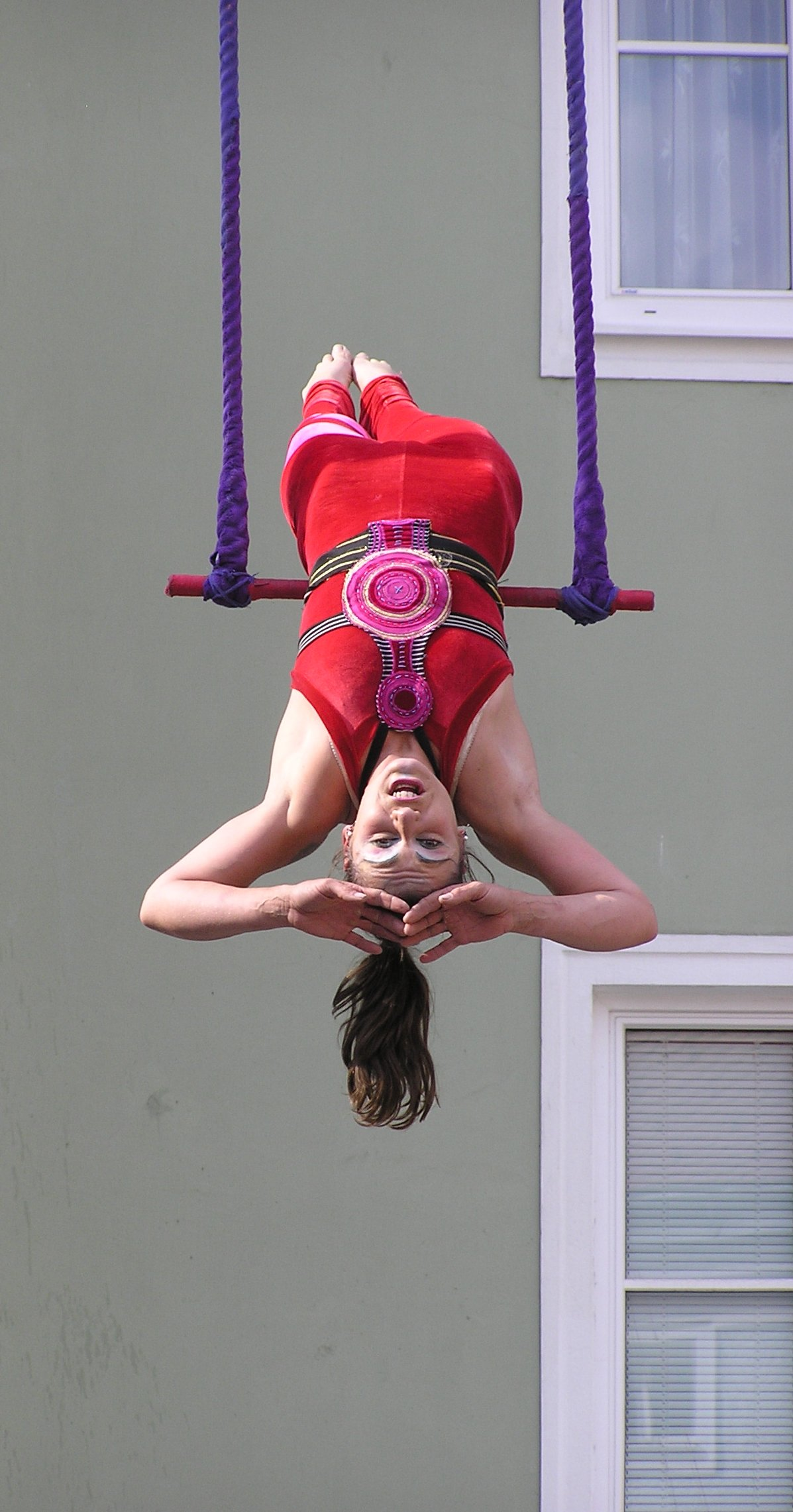 Close-up of Theaker von Ziarno, trapeze artist from Fremantle, Australia, at the Pflasterspektakel in Linz, Austria, 22 July 2005